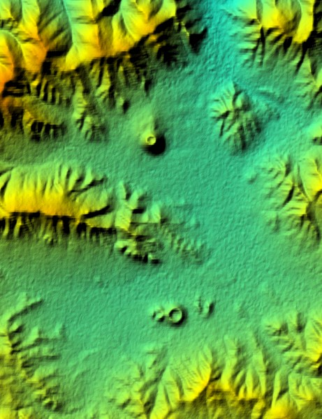 Original DEM was SRTM from NASA accessed via . My contribution was to colorize elevations and shadowing. This file is a JPEG version of the Uran-Togoo Tulga Uul Natural Monument Topography.tif